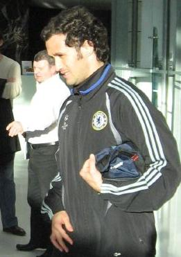 Portuguese football (soccer) player Ricardo Carvalho